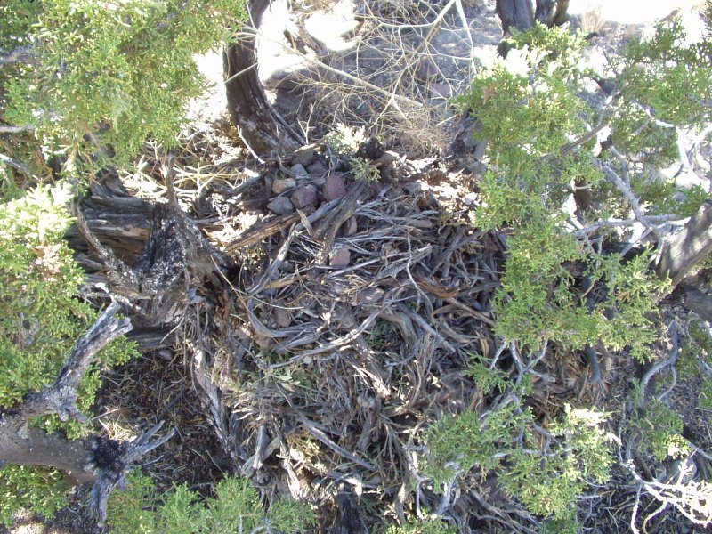 Active Packrat midden under a Utah Juniper tree. Photo taken in September 2005 in northern Nevada by Toiyabe.